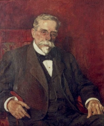 Retrato de Jorge Wood (1834-1908), militar y acuarelista chileno, hijo del pintor inglés radicado en Chile Charles Clotsworthy Wood Taylor (1792–1856) Alternative names Charles C. Wood Taylor, Charles Wood, Carlos C. Wood, Charles Clotsworthy Wood TaylorDescriptionBritish painter, traveller, soldier and landscape painterDate of birth/death 25 April 1792 19 February 1856Location of birth/death Liverpool LondonWork location ChileAuthority control : Q5764827 VIAF: 66397436 ISNI: 0000 0004 4646 1785 ULAN: 500007445 LCCN: nr2001026869 RKD: 85487 WorldCat creator QS:P170,Q5764827